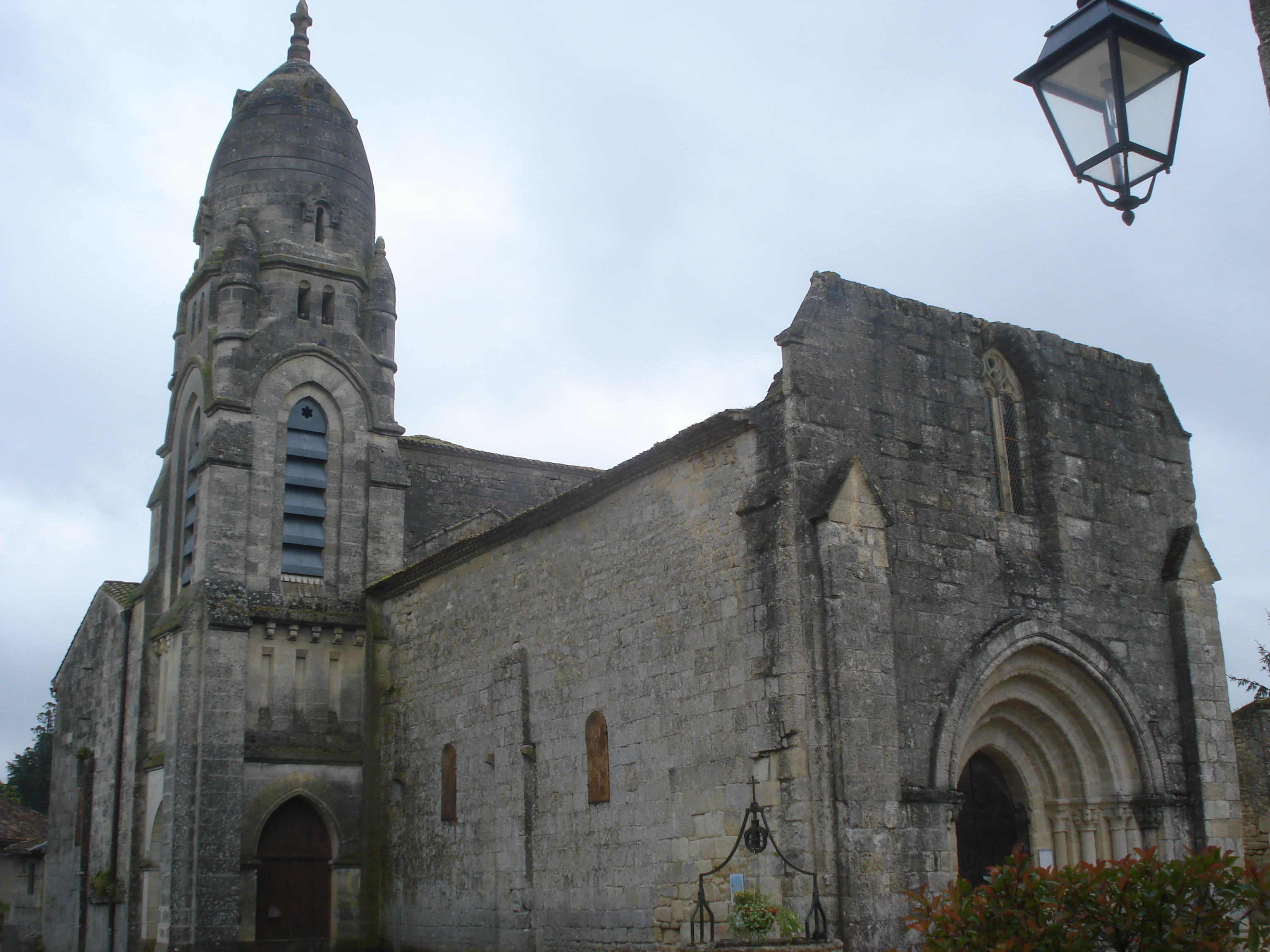 Pellegrue (Gironde, Fr), the church, frontview.